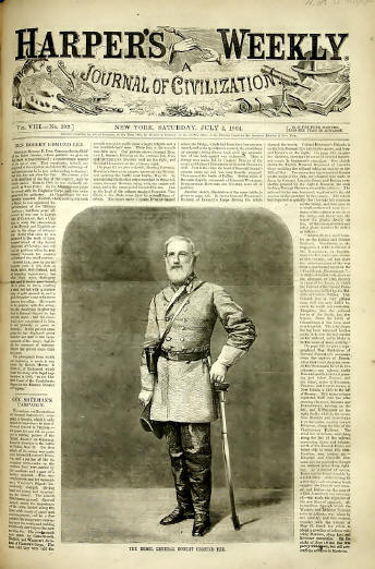 Harper's Weekly from July 1864. Edition: "Harpers Weekly:General Robert Edward Lee" of Harper's Weekly